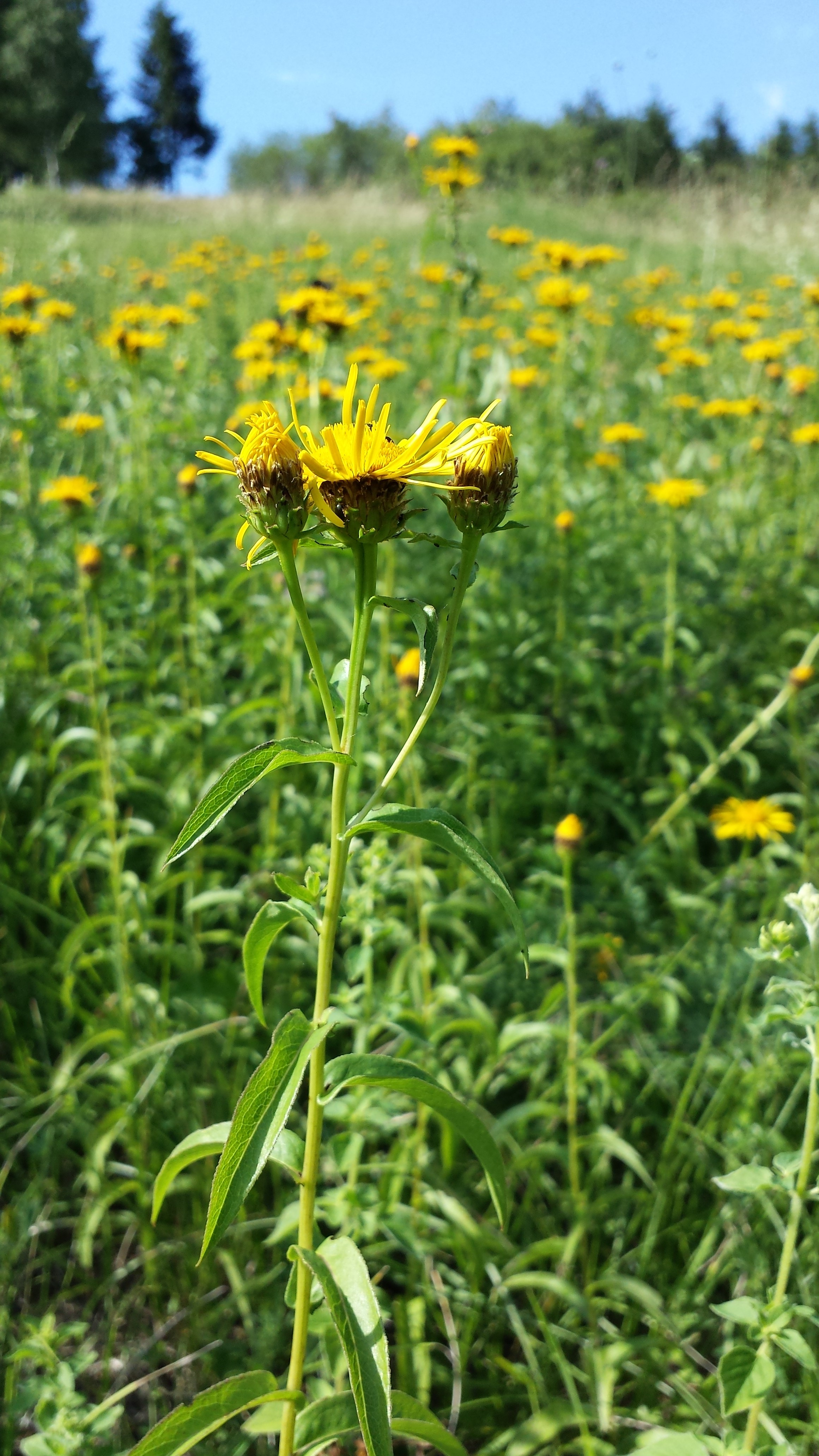 Habitus Taxonym: Inula salicina ss Fischer et al. EfÖLS 2008 ISBN 978-3-85474-187-9 Location: near Niederhollabrunn, district Korneuburg, Lower Austria - ca. 300 m a.s.l. Habitat: semi-dry grassland